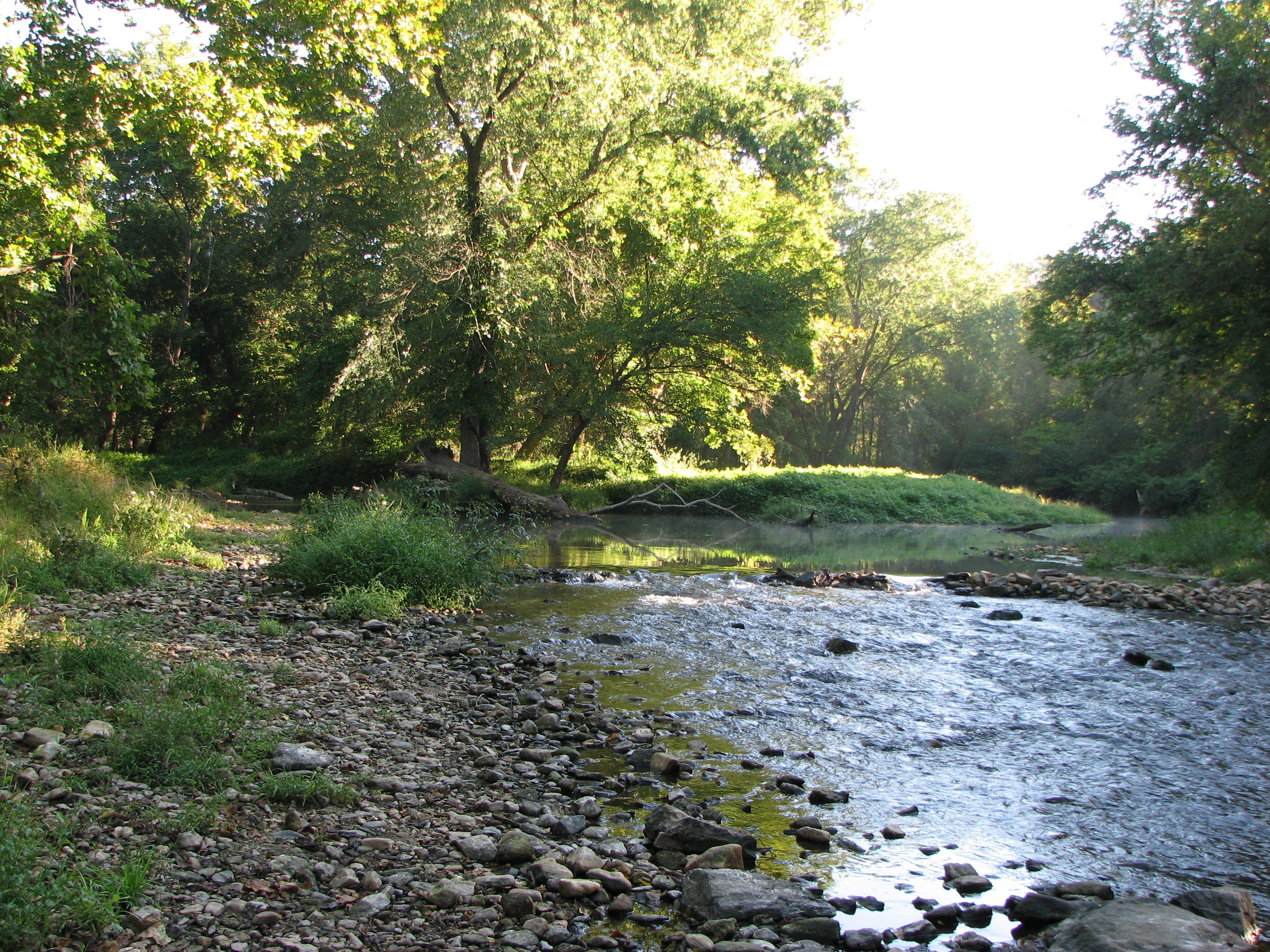 Forks of the White Clay Creek, Pennsylvania, as seen from the former site of the Yeatmans Station Road bridge. The East Branch is on the right, and the combined Middle and West Branches on the left. This was the site of the Indian town of Opasiskunk, and lies in what is now the White Clay Creek Preserve.